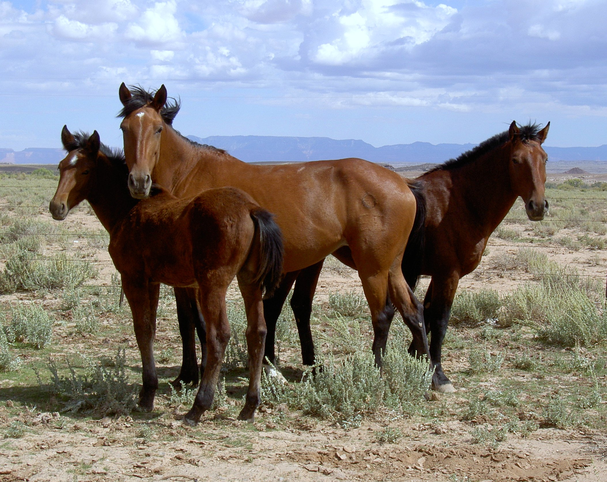 Mustangs by the side of the road just outside Chinley Az